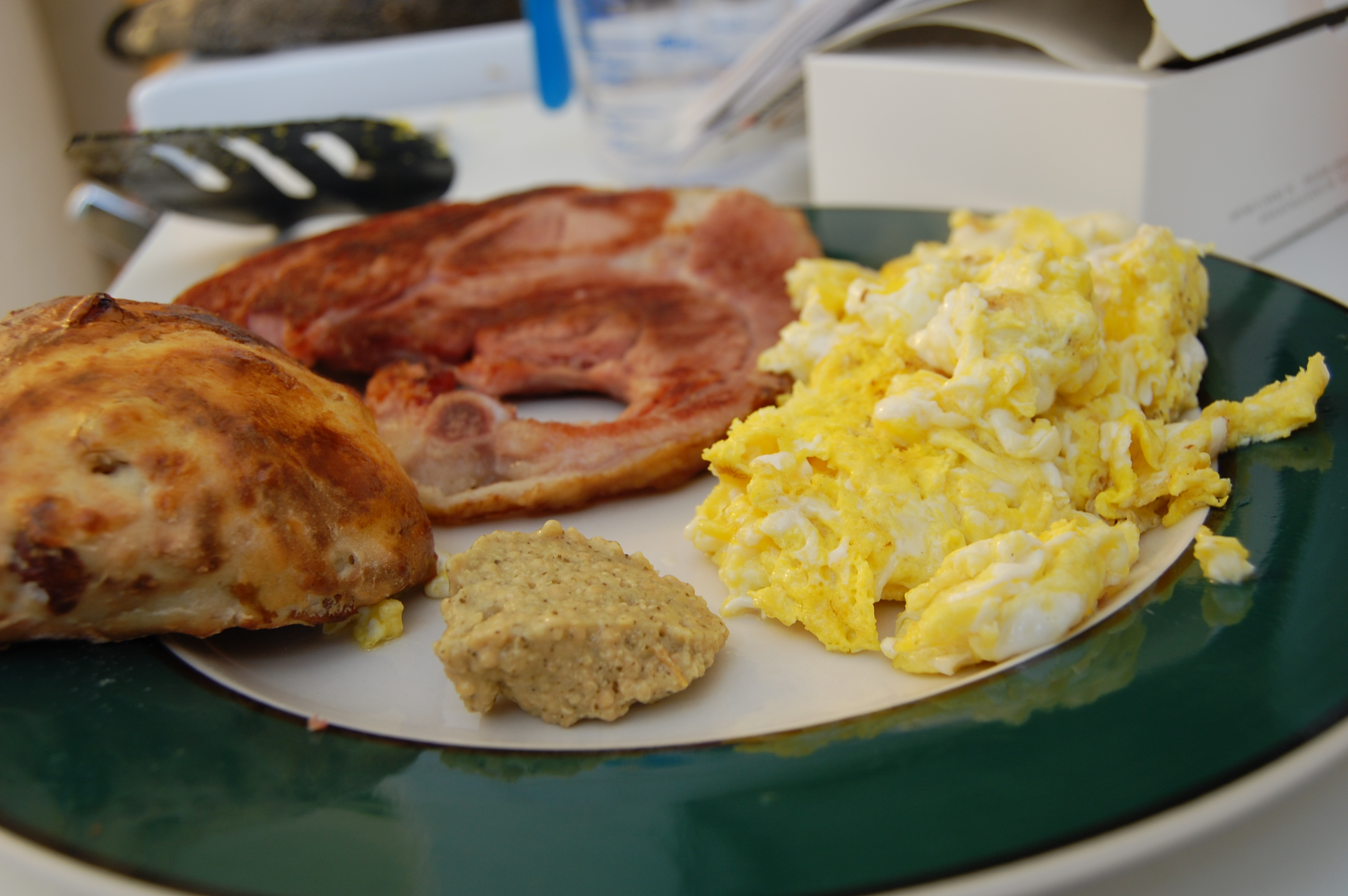 There's a vendor at the market who's been selling jams for a few years. This year they started selling mustard.